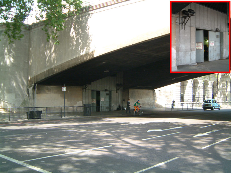 Kingsway tramway, London, S entrance, photo by Nevilley 14/6/04. Inset shows close-up of doors. Main pic from S side of Embankment just to W of Waterloo Bridge.